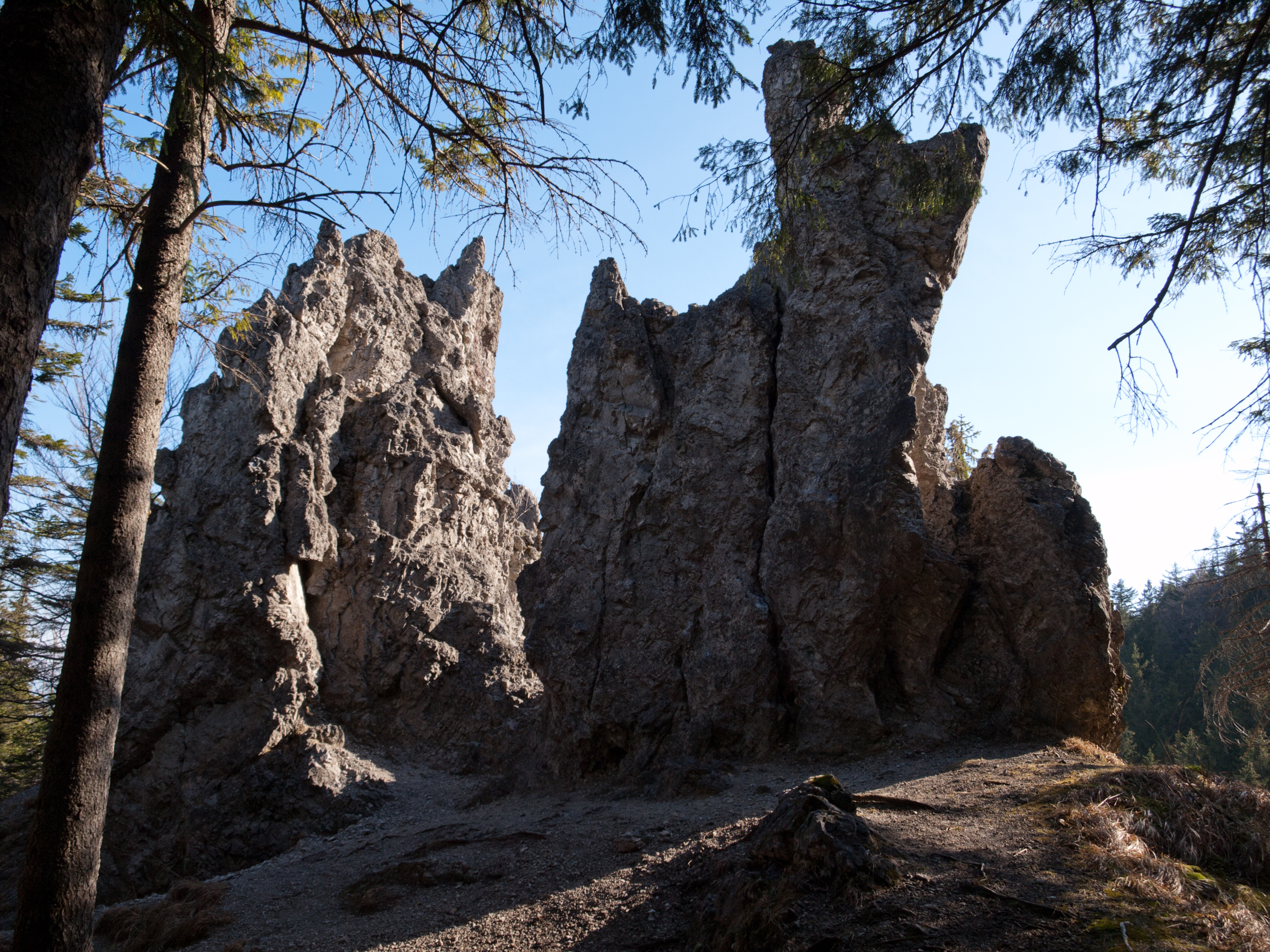 Kogutki – dolomite rocks (1009 m asl) in Krokiew massif.